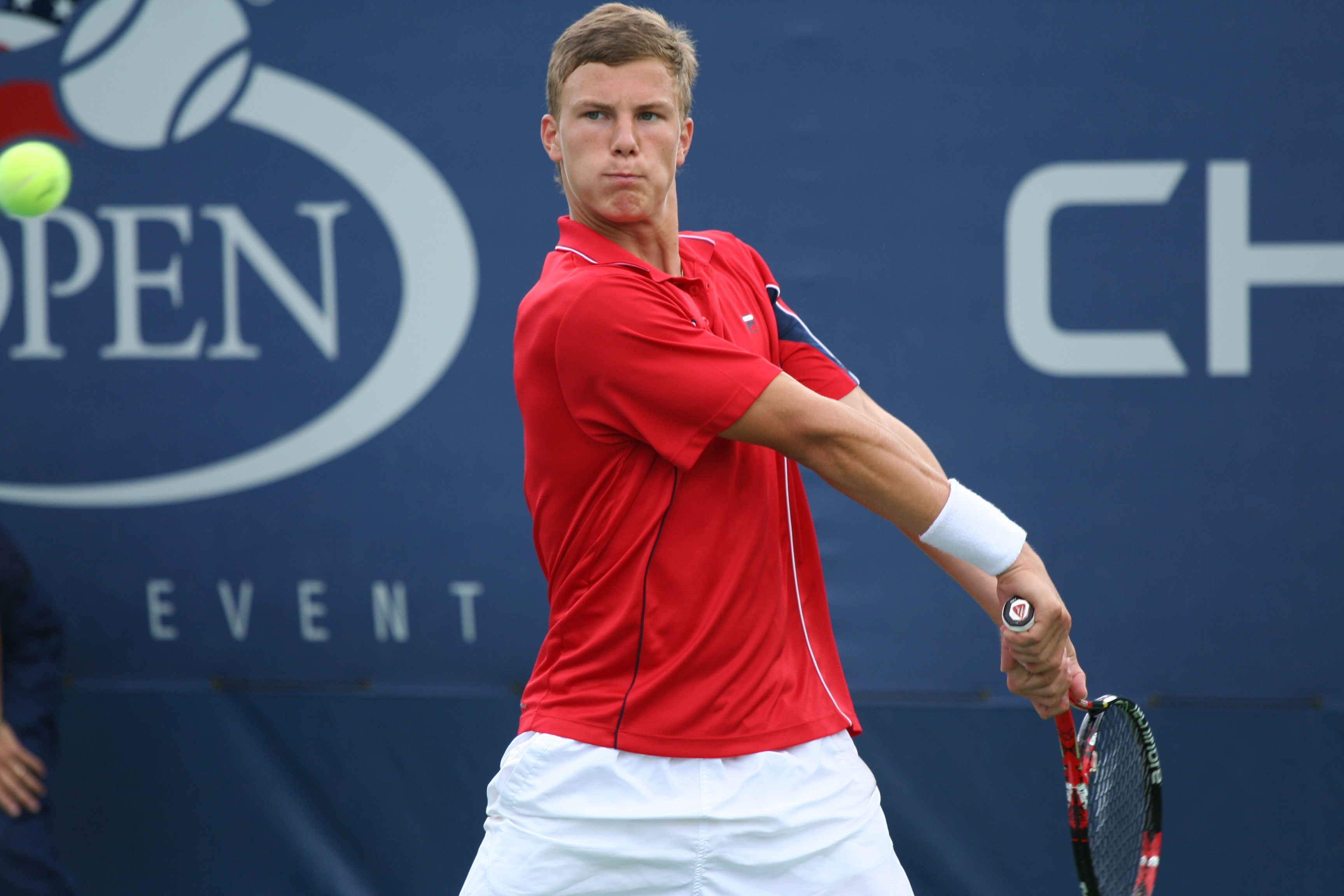 Hungarian tennis player Márton Fucsovics at the U.S. Open Juniors.